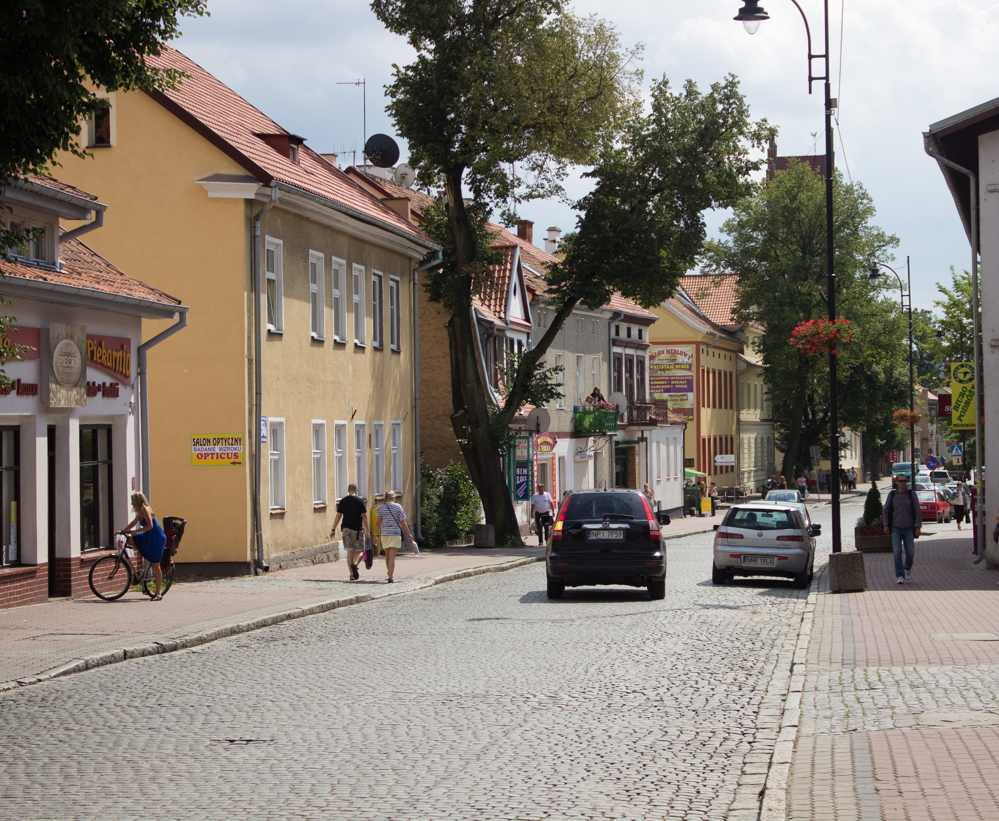 Mrągowo, gmina Mrągowo, powiat mrągowski, Warmian-Masurian Voivodeship